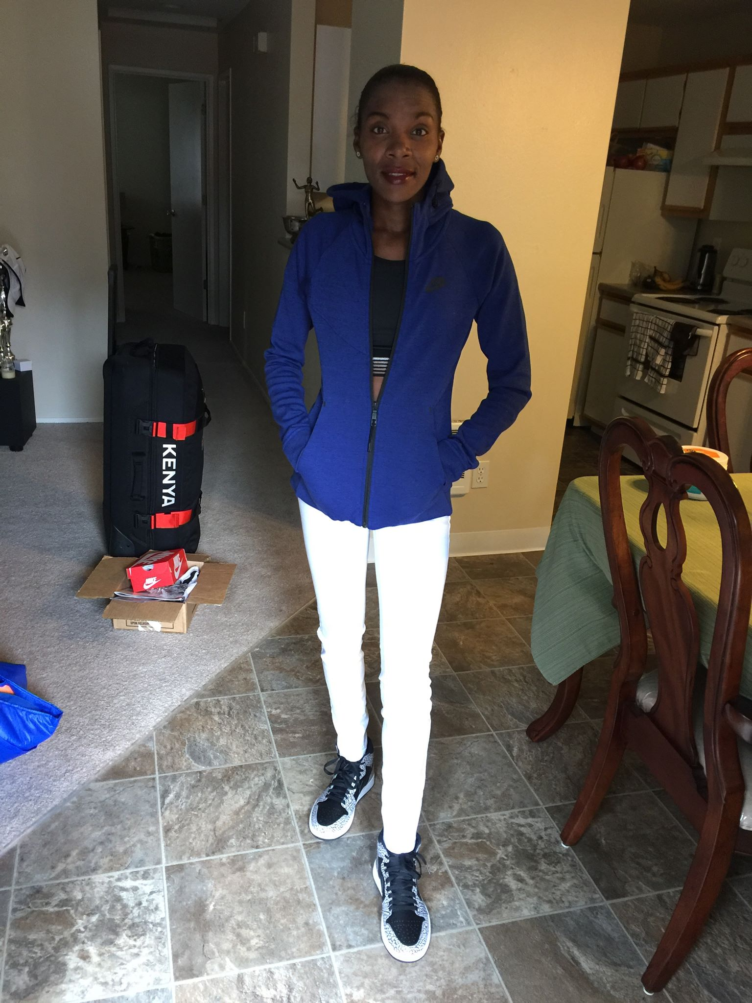 Ready for the road, travelling